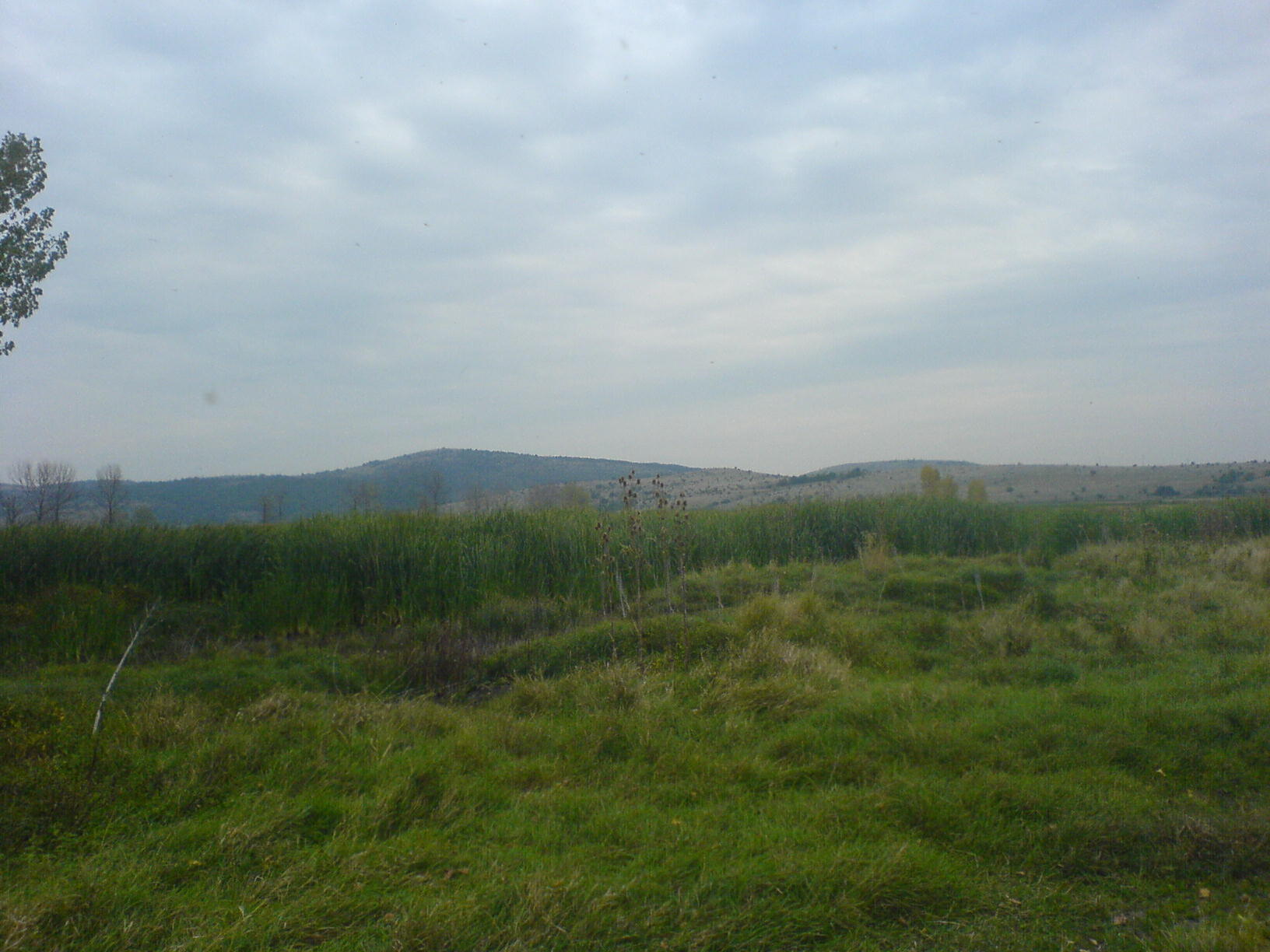 The mountain Tri Ushi, near city Slivnitsa and city Dragoman. Look from Dragoman marsh.